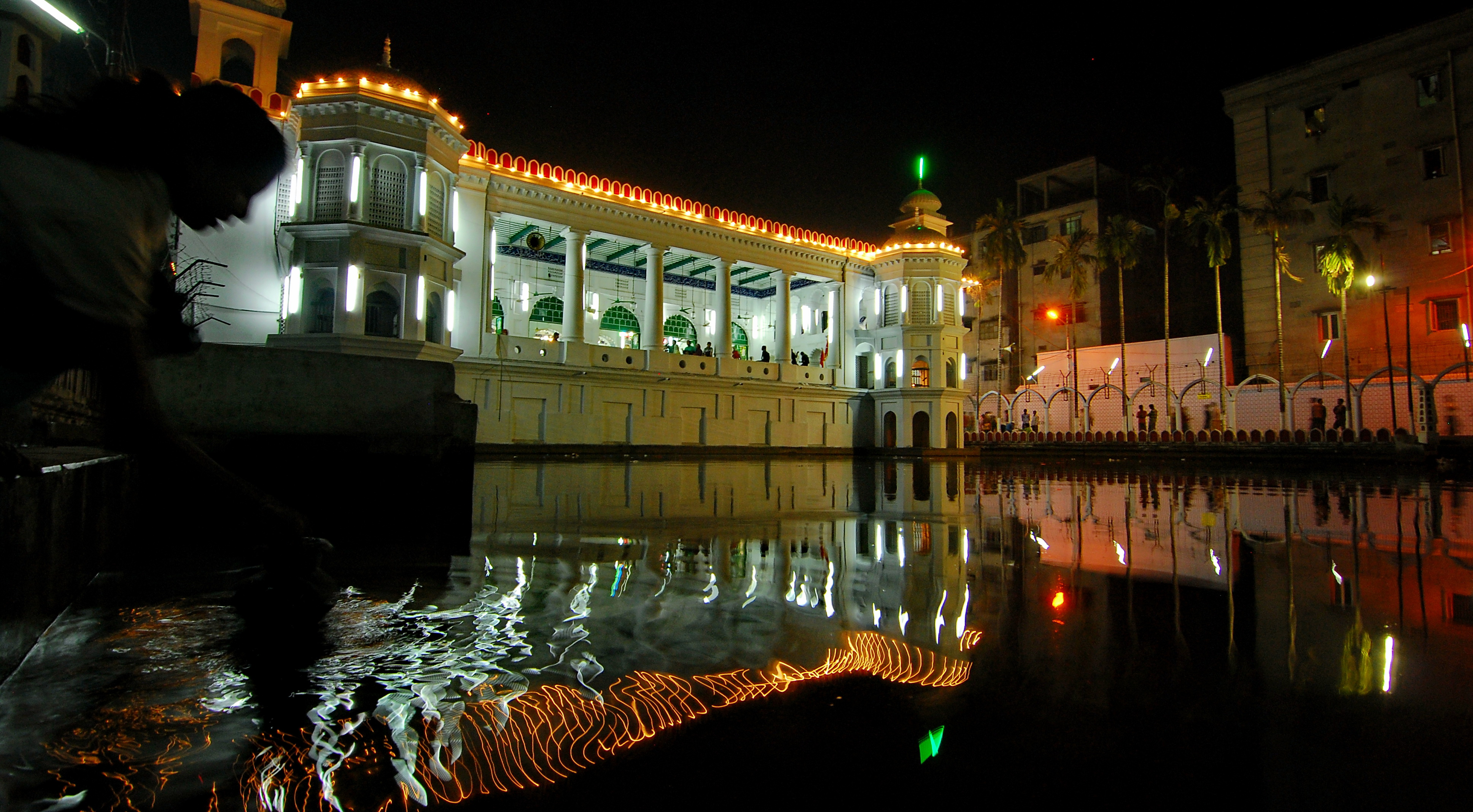 Hussaini Dalan from the back yard.